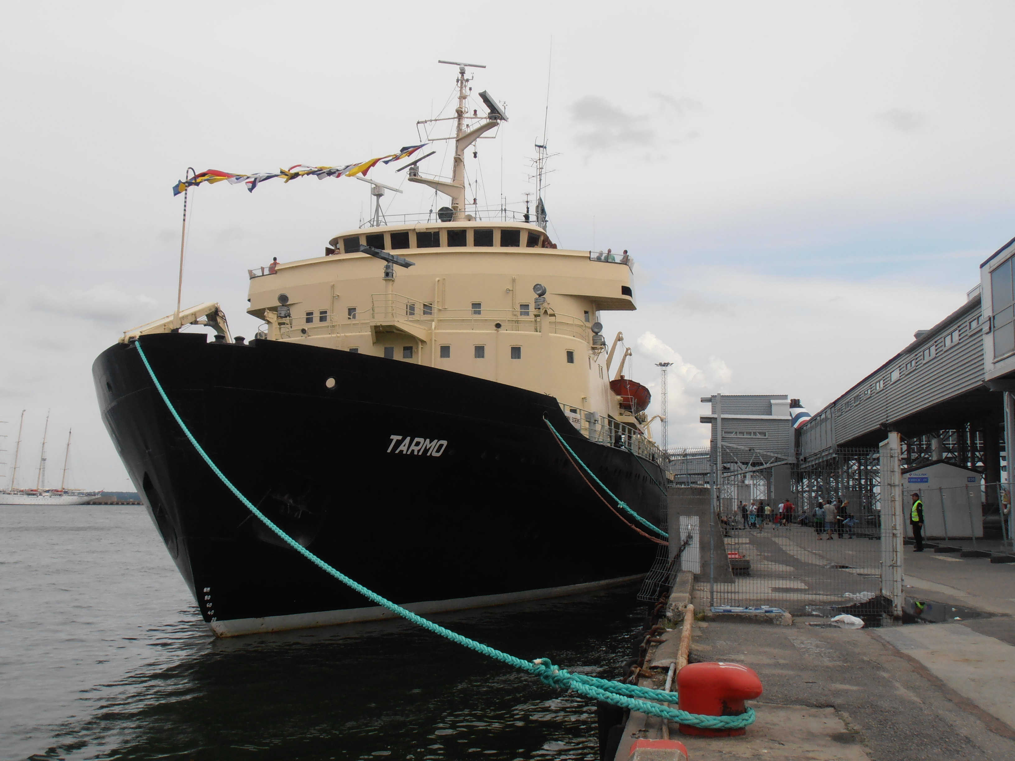 Tarmo IMO 5352886 Tallinn 14 July 2012